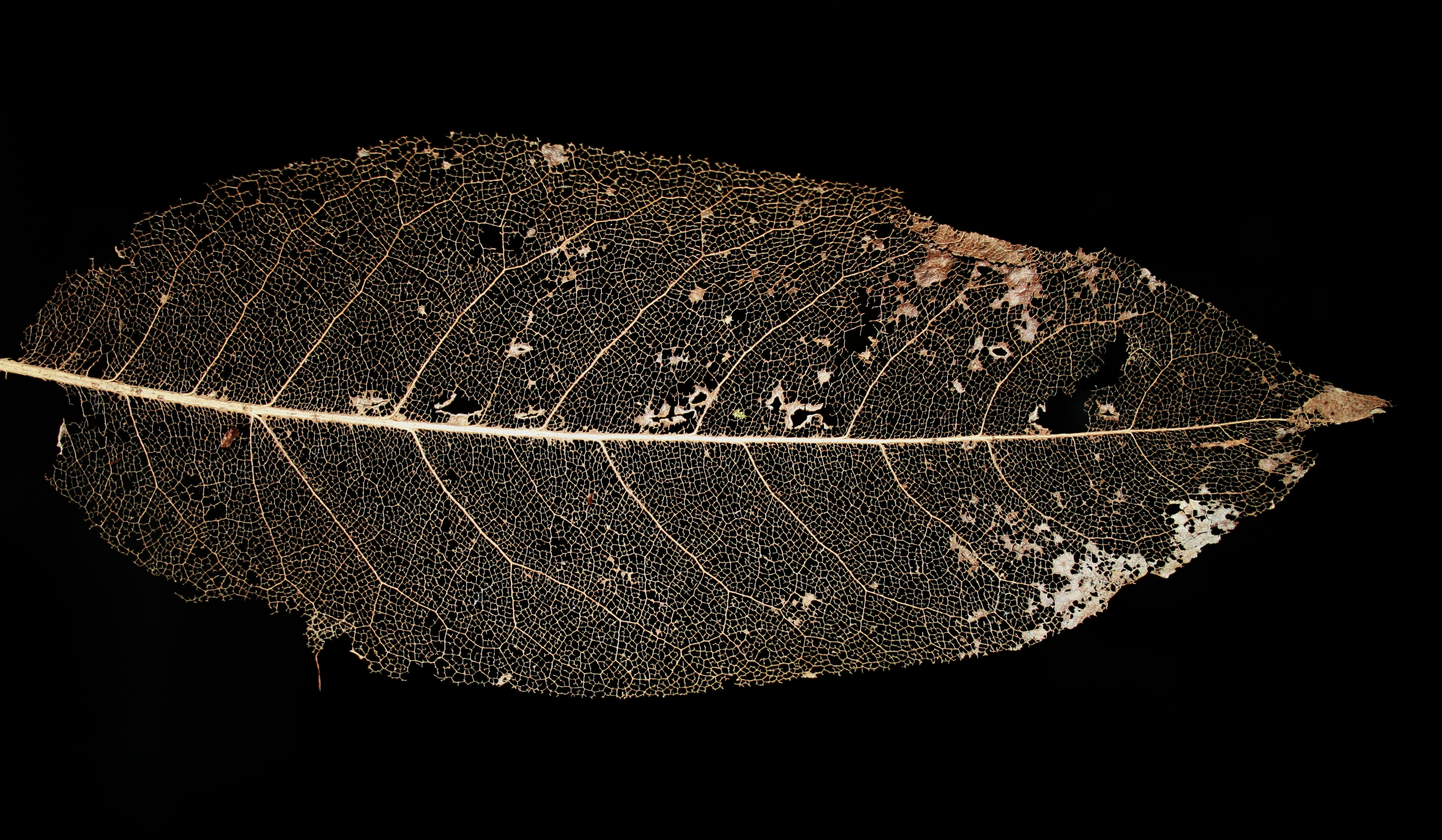 Vein skeleton of a leaf. Veins contain lignin that make them harder to degrade for microorganisms. The leaf came from Magnolia doltsopa (Magnoliaceae).